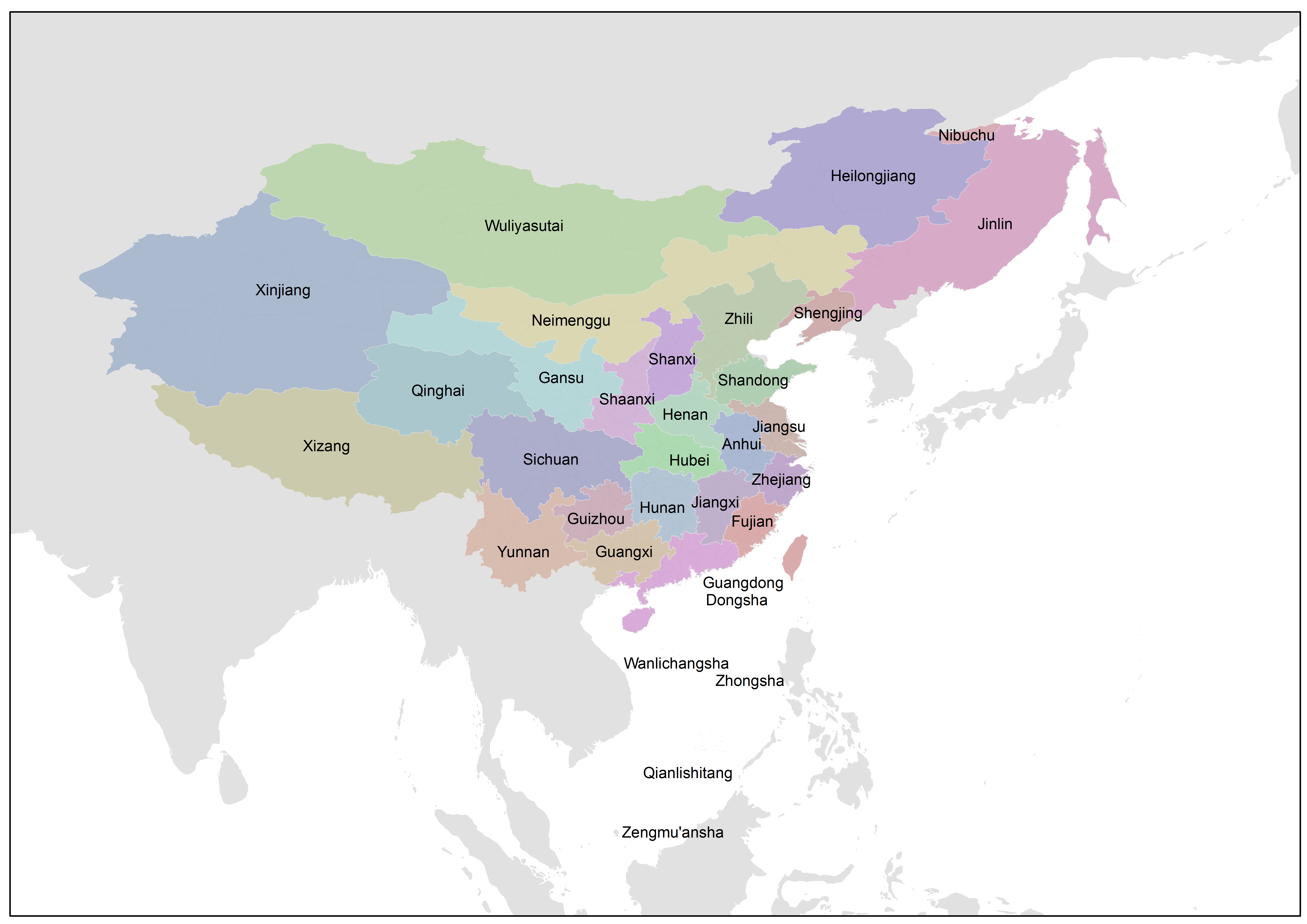 A reprojected map on China's Qing Dynasty 1820, based on the "CHGIS, Version 5" Cambridge: Fairbank Center for Chinese Studies, Sep 2011." CHGIS Fairbank Center for Chinese Studies, Harvard University CHGIS Center for Historical Geography, Fudan University